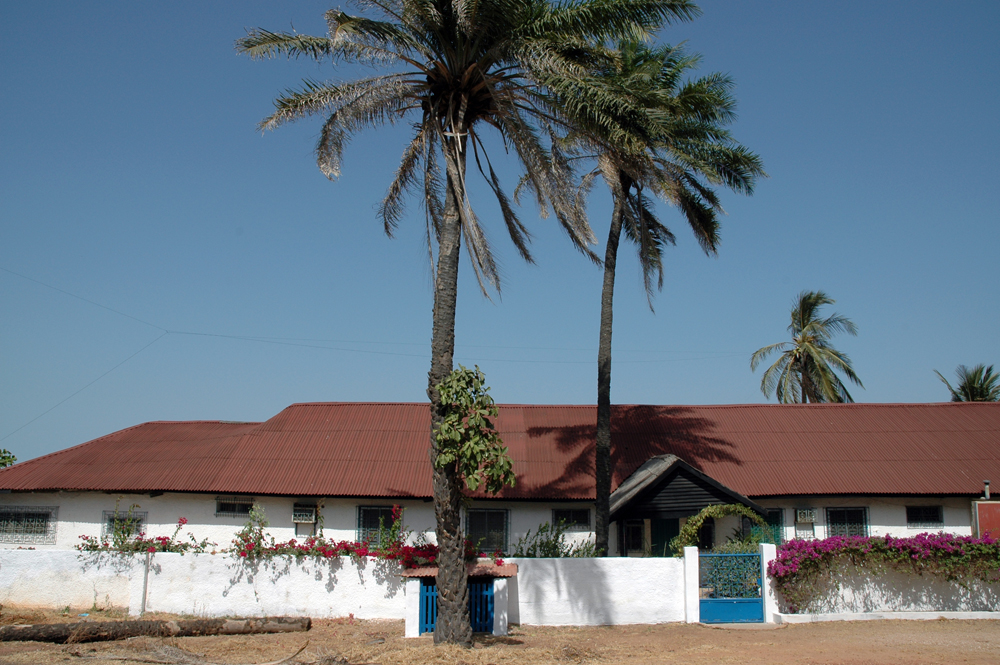 Banjul, The Gambia. Building of Radio Syd, the first commercial radio station in Africa. Off the air since September 11, 2002. Photograph by Henryk Kotowski